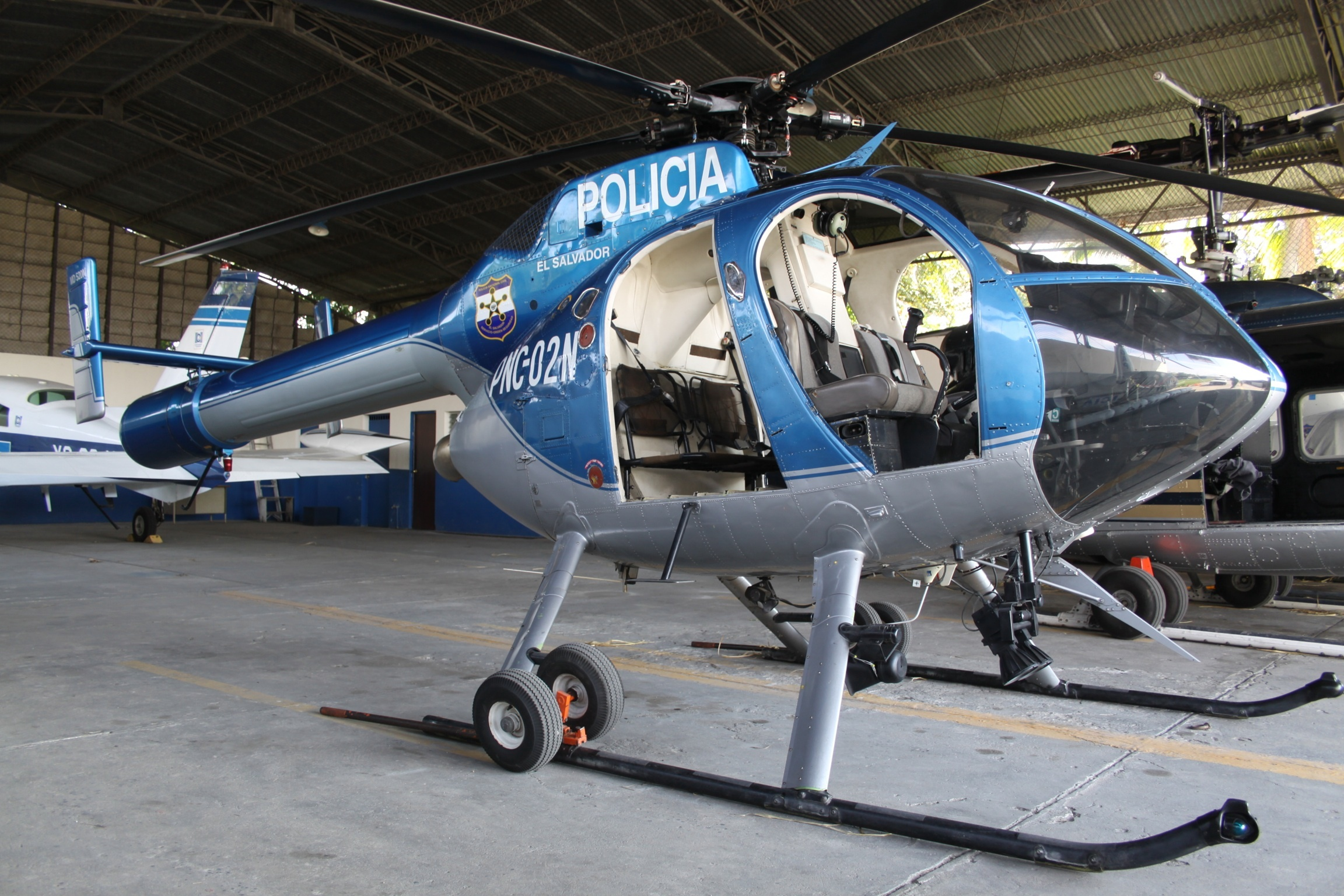 At Ilopango International